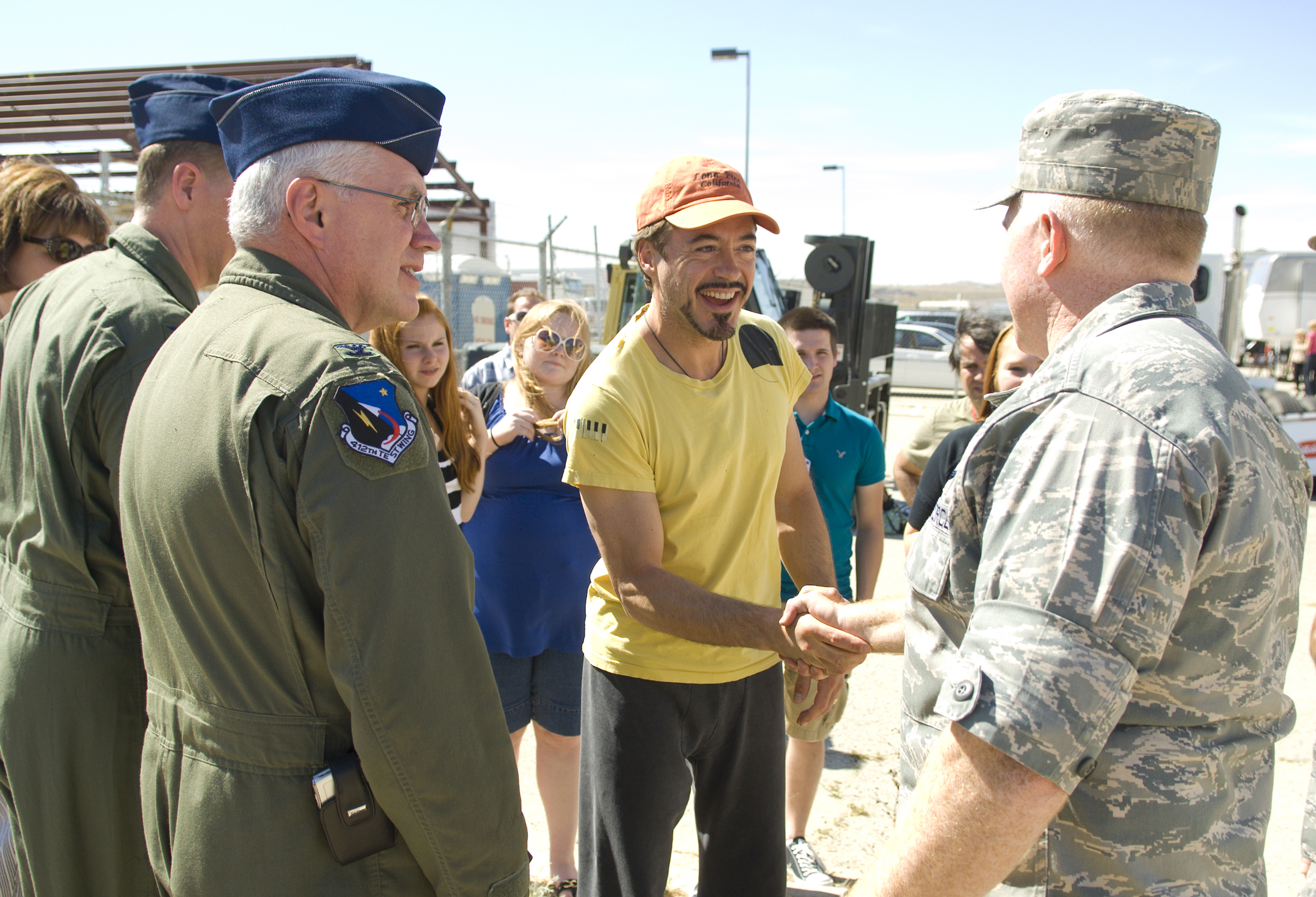 Robert Downey Jr. (center), "Ironman II" actor, greets Col. Jerry Gandy (right), 95th Air Base Wing commander, during a break in filming here, May 13. About 60 members of Team Edwards participated in the filming as extras and technical advisors.